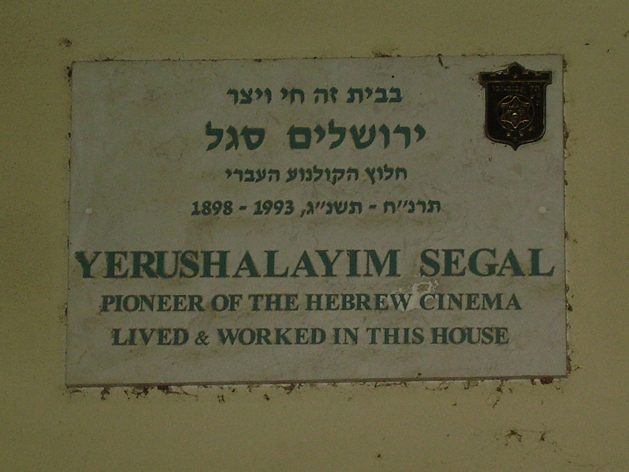 memorial plaque on the house of yerushalayim segal in tel aviv לוחית זיכרון על ביתו של ירושלים סגל ברח' ורבורג 5 בתל אביב